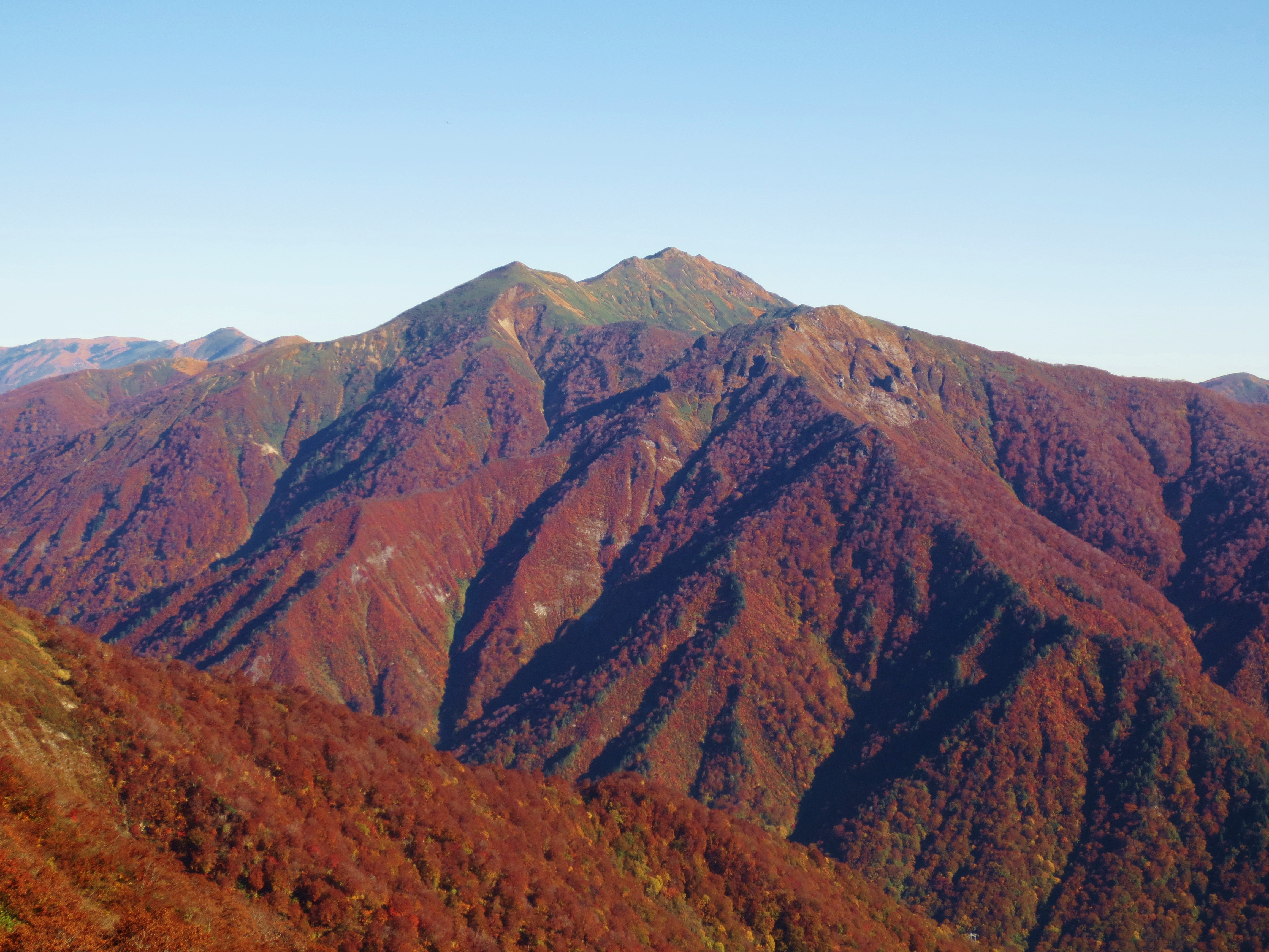 Mount Asahi, Mount Kasa and Mount Shiragamon.